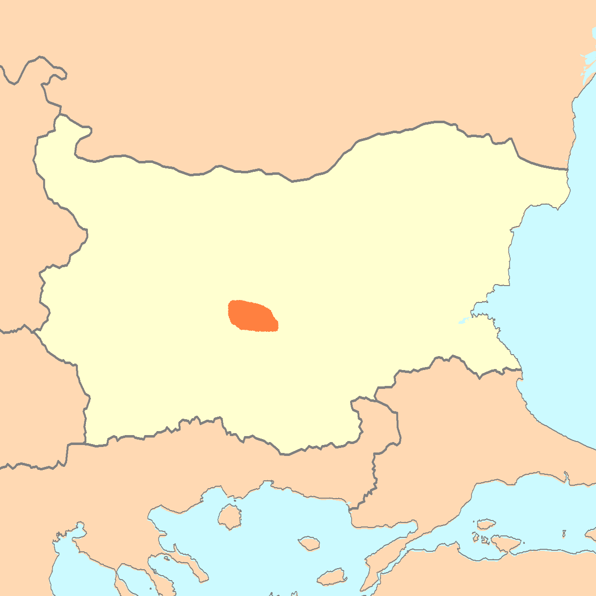 White Maritza Sheep area of distribution